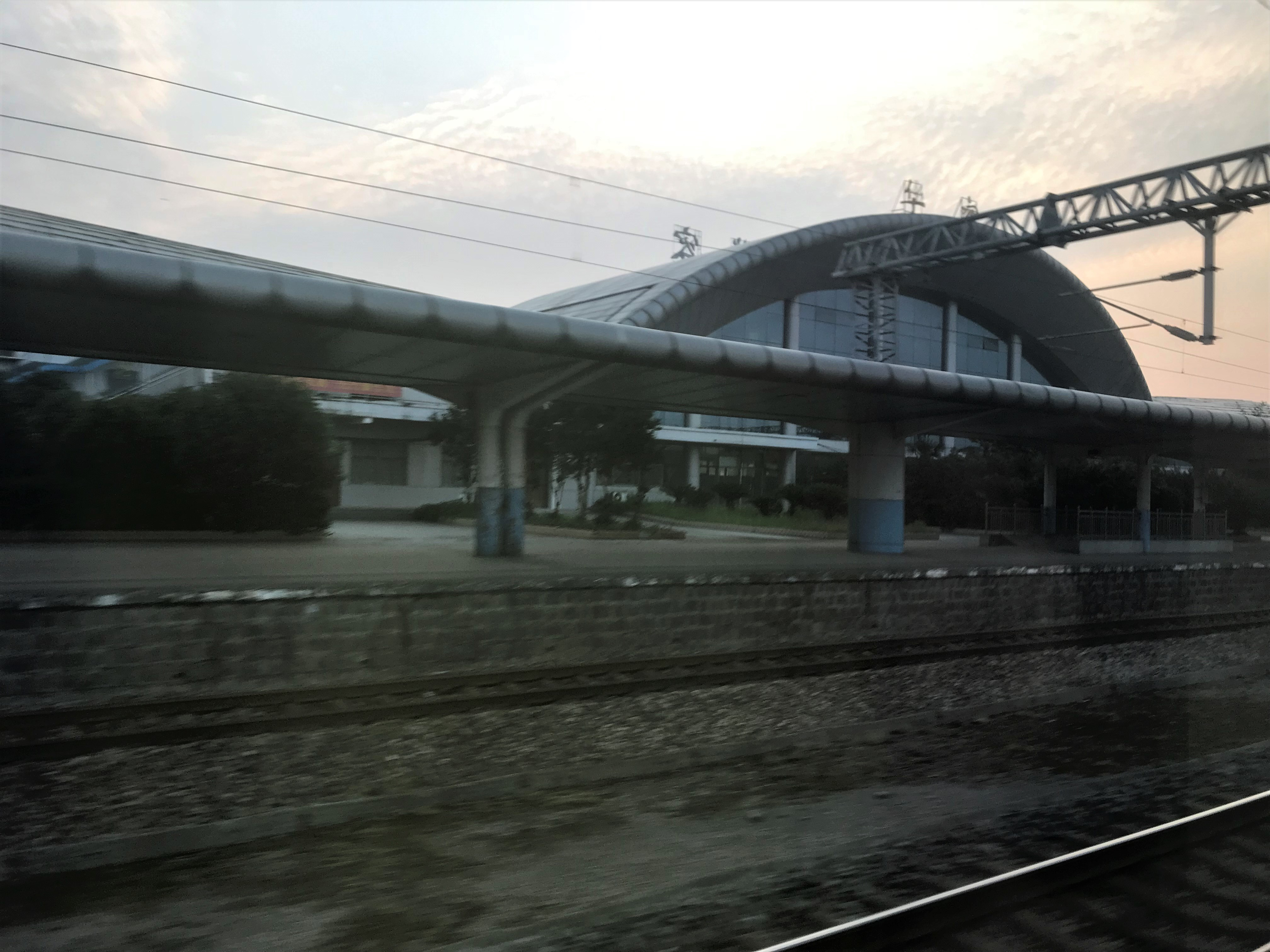 201906 Station Building of Huarong Station